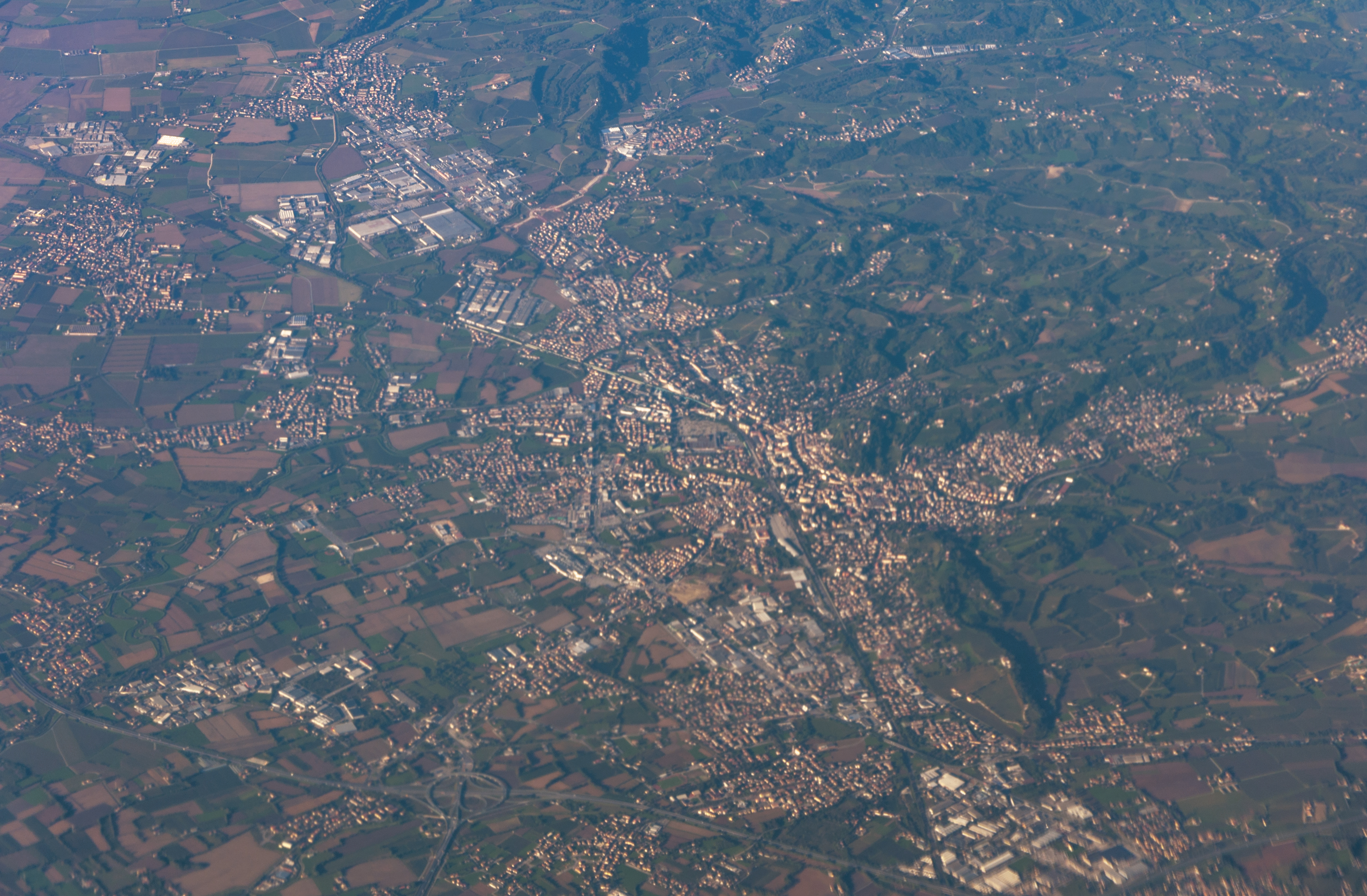 Italy, view overhead Pontebbana